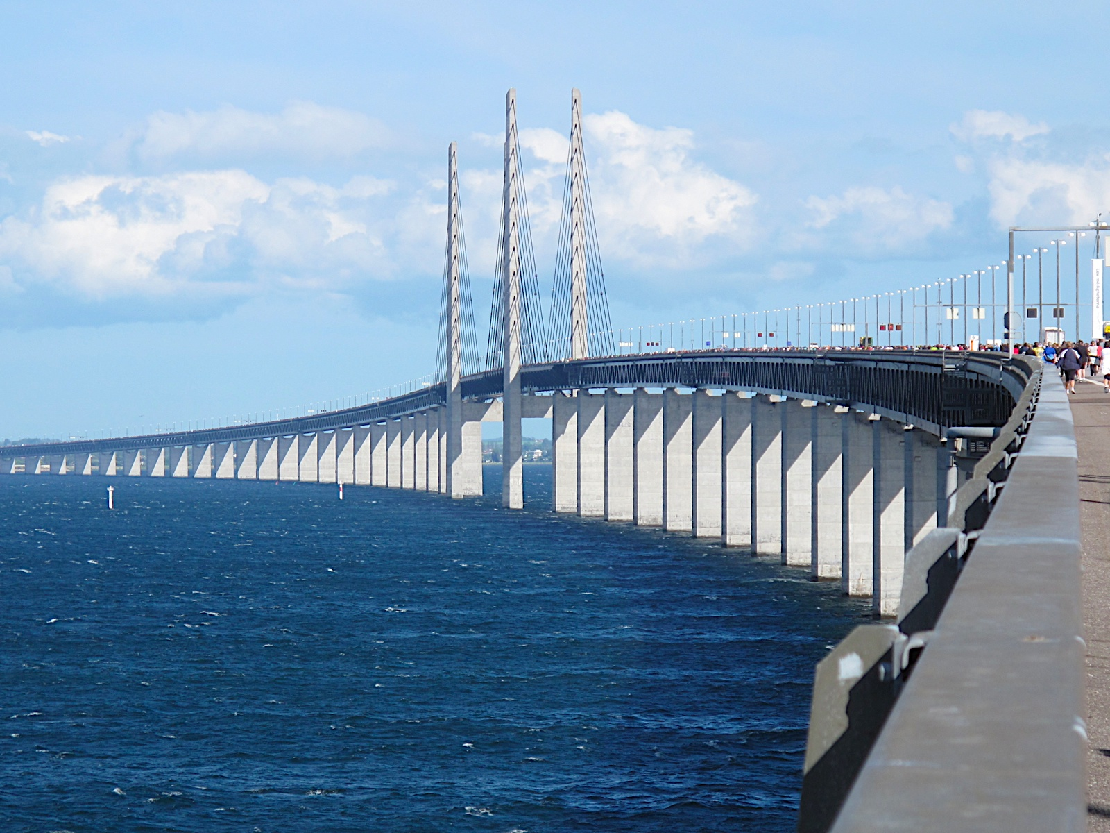 Broloppet 2010, the middle of the bridge is elevated to let boats to pass